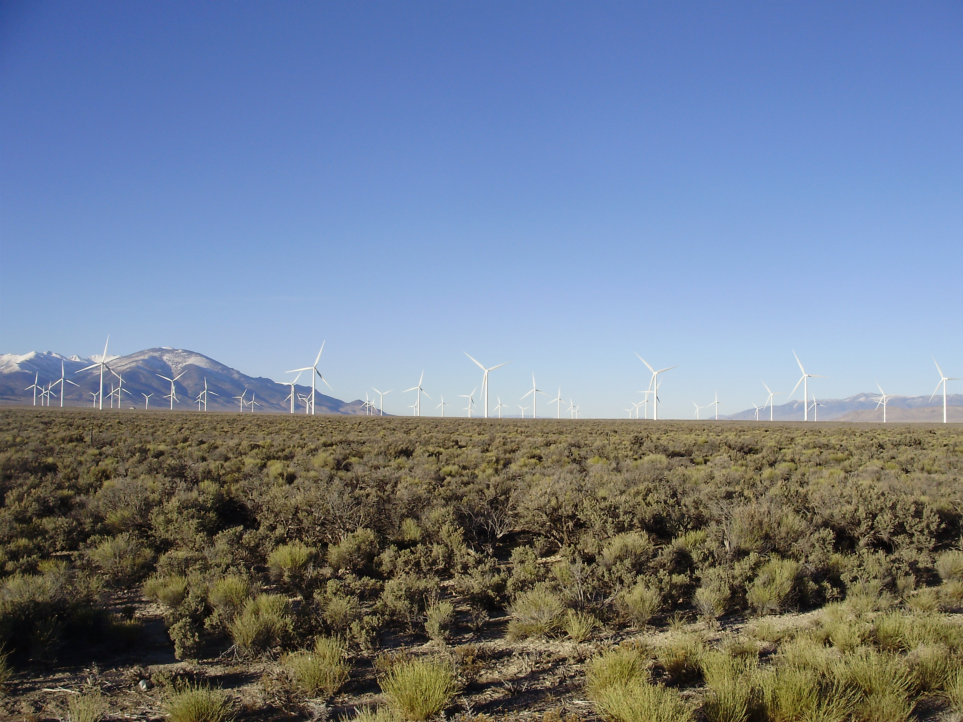 View north across the Spring Valley Wind Farm from U.S. Routes 6 and 50 in Spring Valley, Nevada